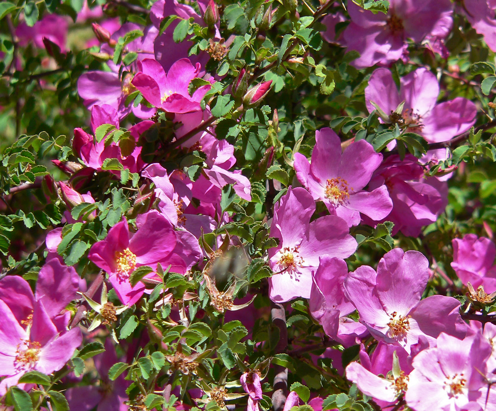 Rosa willmottiae at the University of California Botanical Garden, Berkeley, California